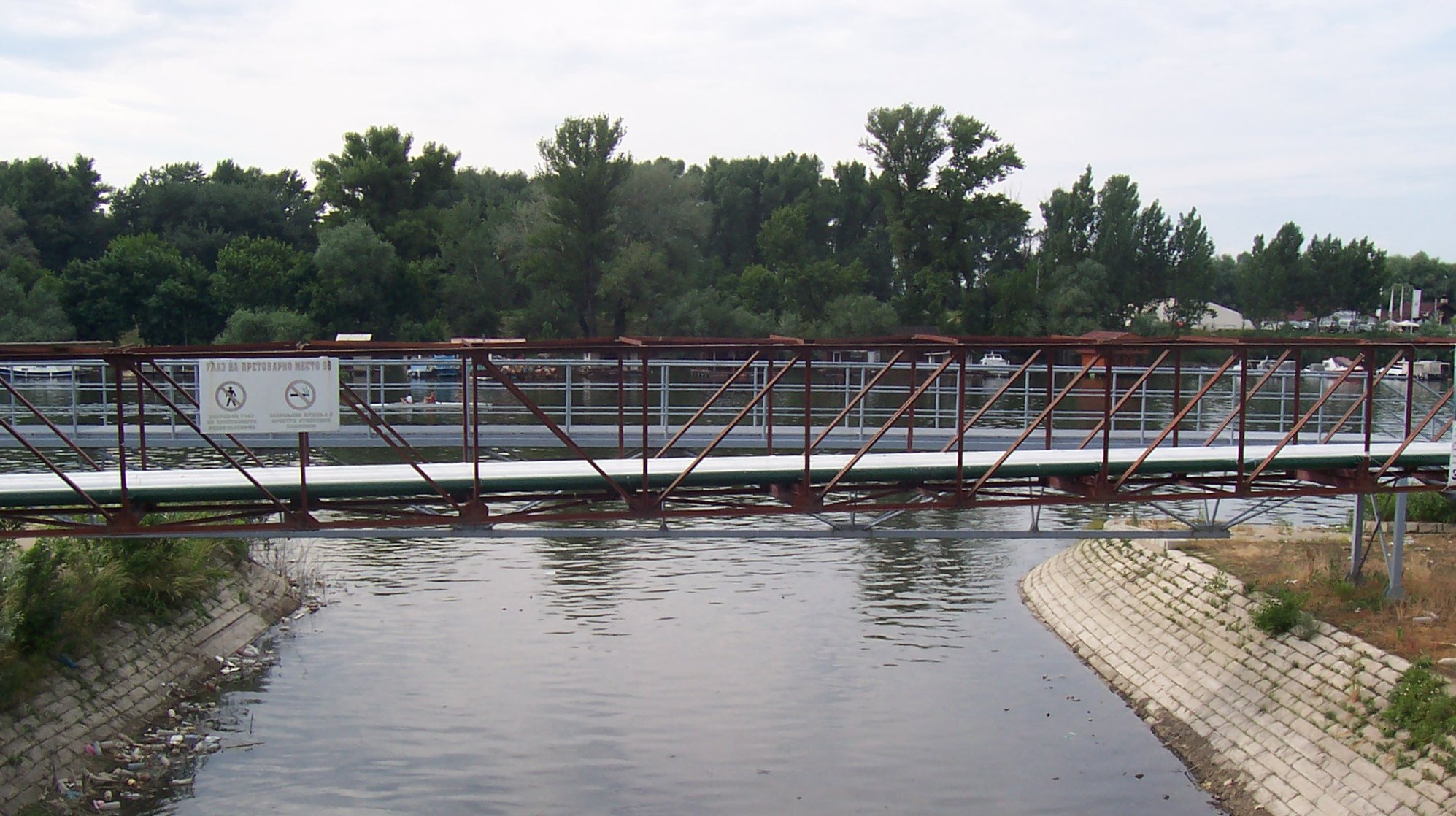 Mouth of Topčider River.